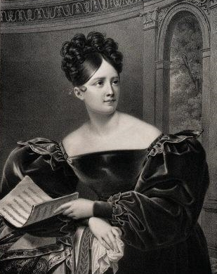 French opera singer Maria Malibran (1808-1836) by Pierre-Roch Vigneron.